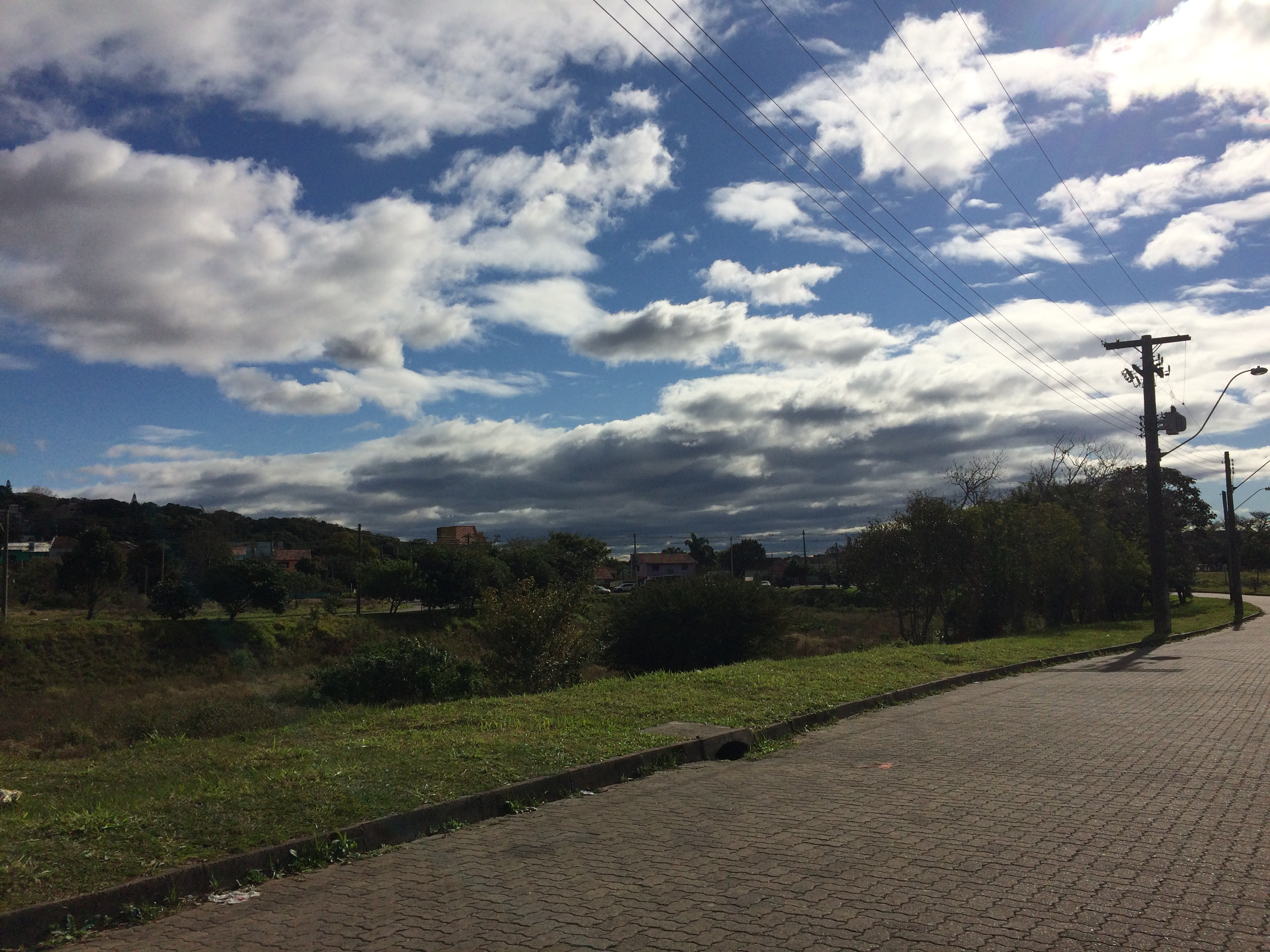 Drainage basin in 'Caminhos de Belem', an development in Espirito Santo, Porto Alegre, Brazil.